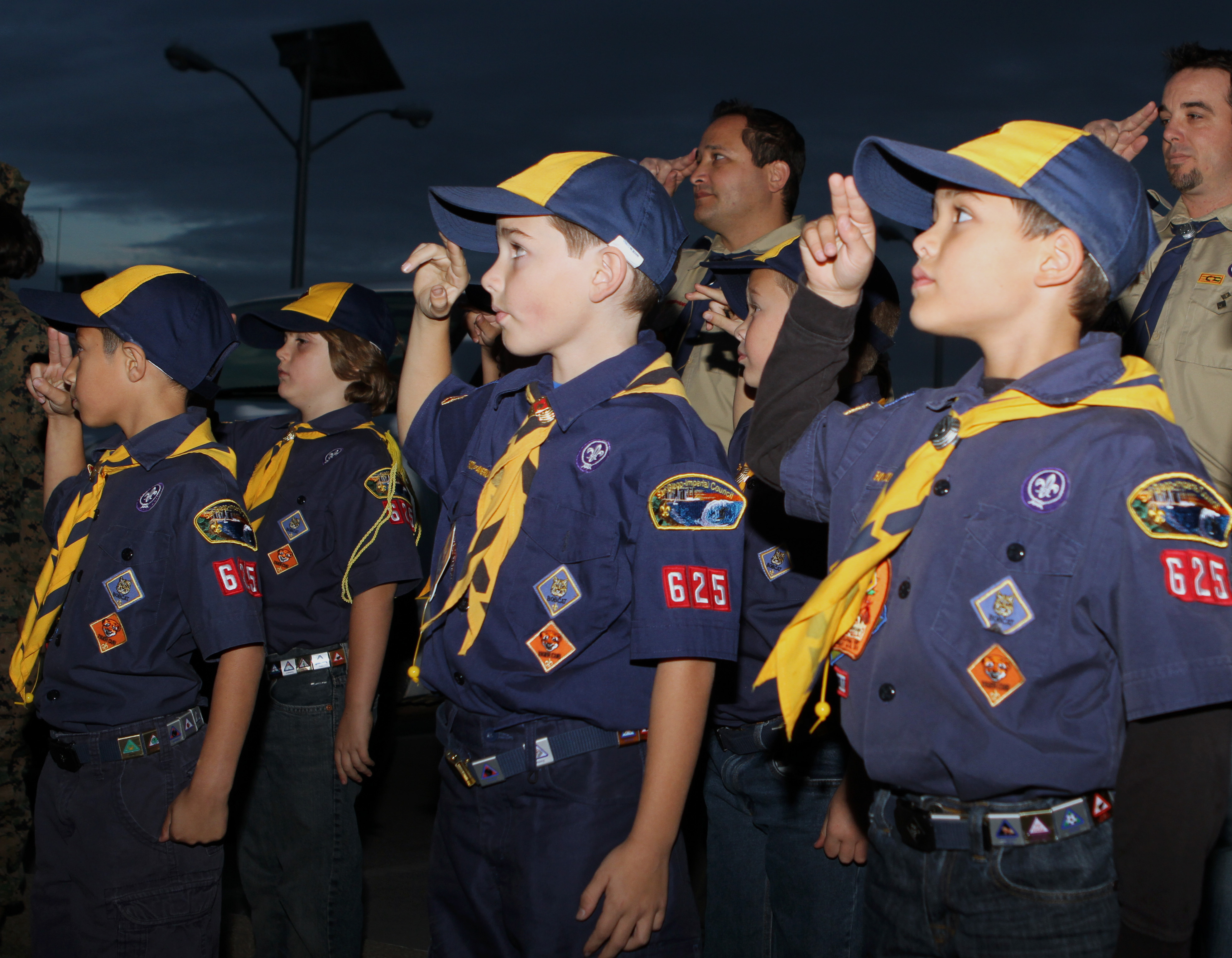 Cub Scouts and den leadership with Wolf Scout Den 3, Pack 625, Poway, Calif., salute the American flag during evening colors ceremony aboard Marine Corps Air Station Miramar, Calif., Nov. 15. When saluting, Cub Scouts and Boy Scouts of all ages stand still and raise their first two fingers to the bill of their hats or edge of the forehead as a sign of respect.